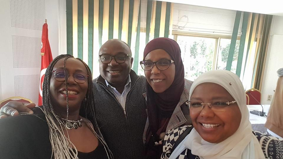 Avec Jamila Ksiksi, Khaled Ben Saad (avocat) et Saadia Mosbah pendant un evenement celebrant l’année internationale de la lutte contre la discrimination raciale